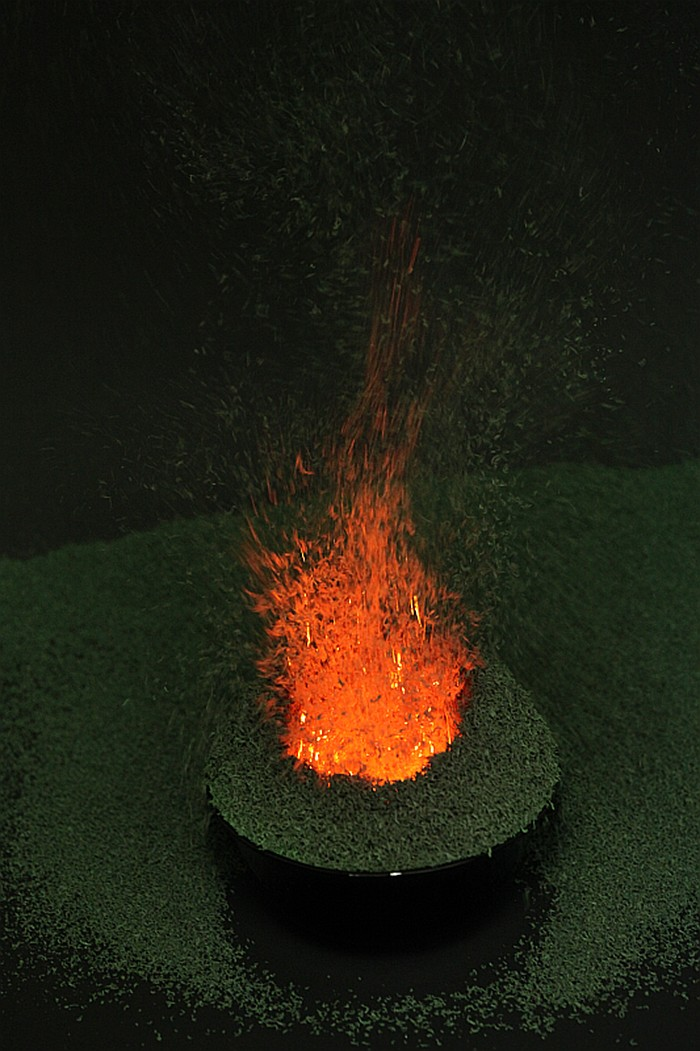 Thermal decomposition of ammonium dichromate